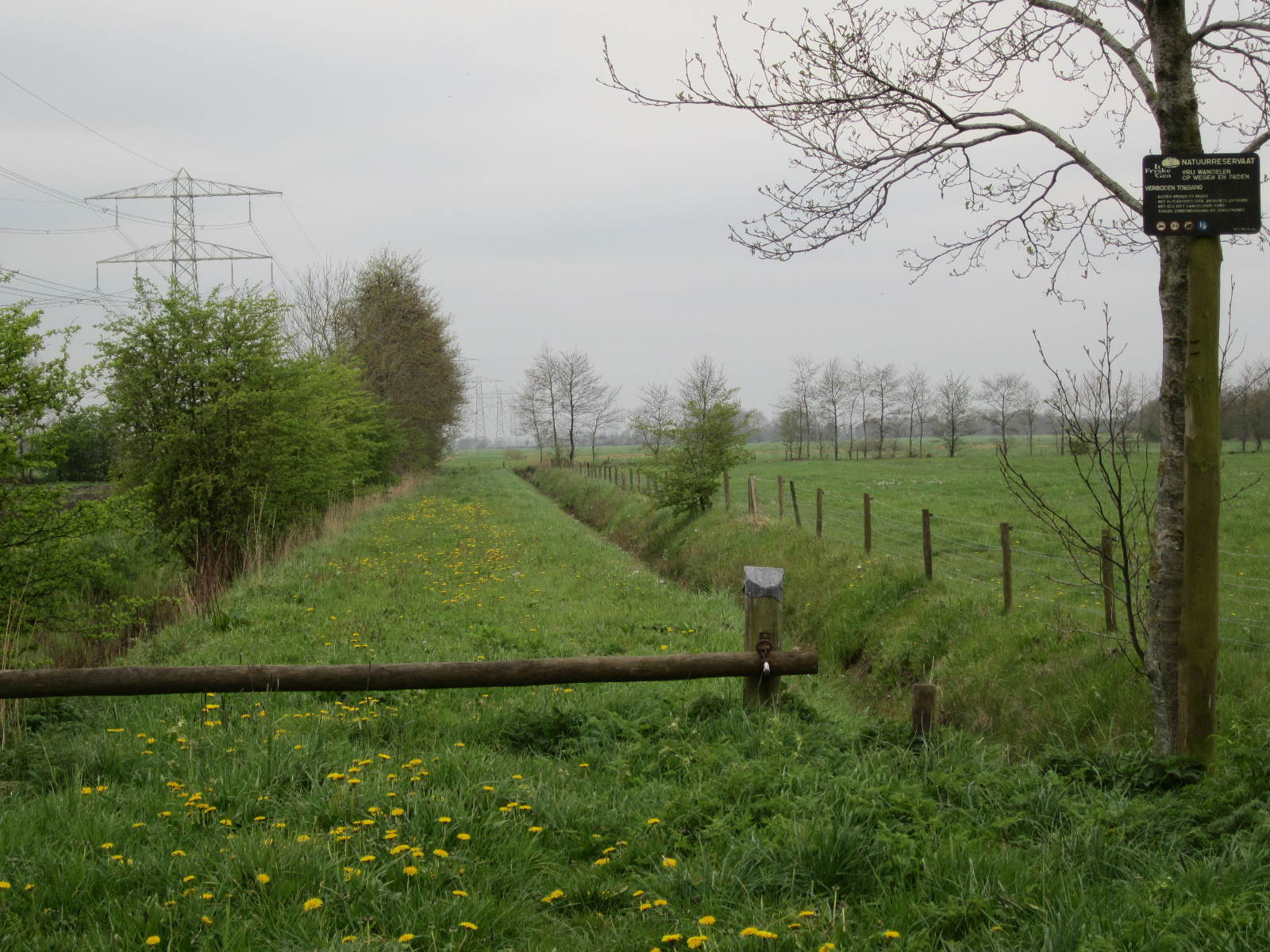 Entrance to nature reserve "Dobben Hurdegarypsterwarren", near Hardegarijp, county Friesland, The Netherlands.